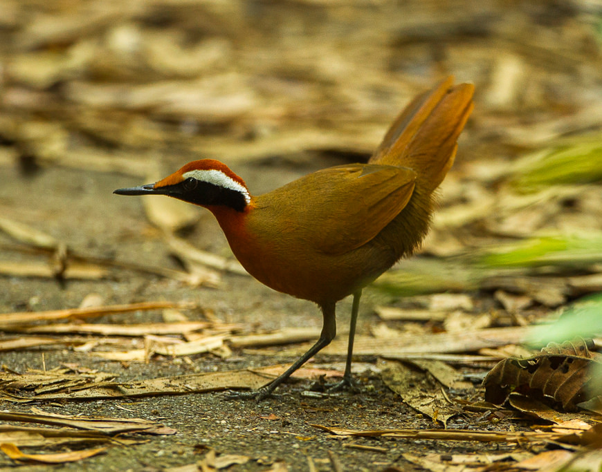 Malaysian Rail-Babler - Krung Ching - Thailand_S4E3696